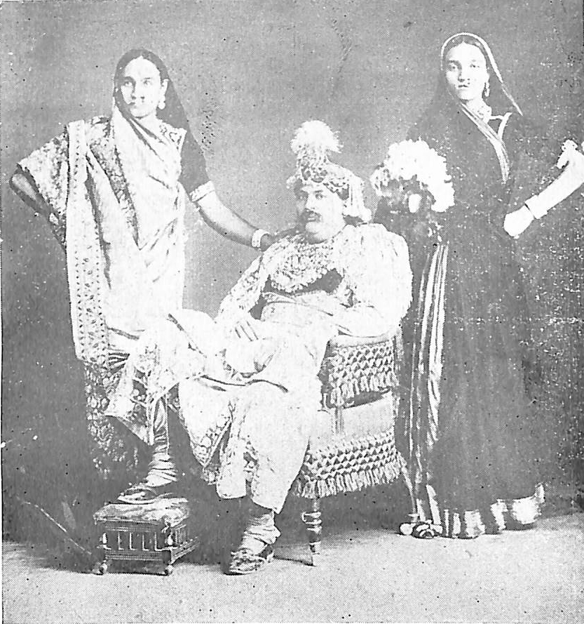 Photo 1: Jethalal Nayak, Dayashankar Vasanji and Jayshankar (Lakhadwala) in a play 'Vikramcharita' in 1900 Photo 2: advertisement of a play 'Sneh Sarita', 1915